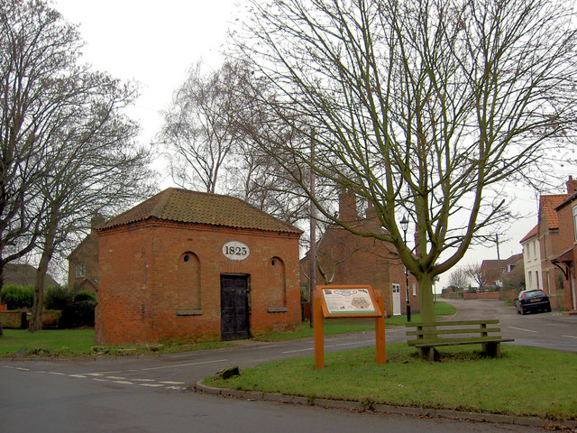 Tuxford Lock Up Dated 1823, Tuxford was an important staging point on the Great North Road. After a period of disuse the building was needed again when the railways around Tuxford were being built to lock up the drunken Irish navvies!